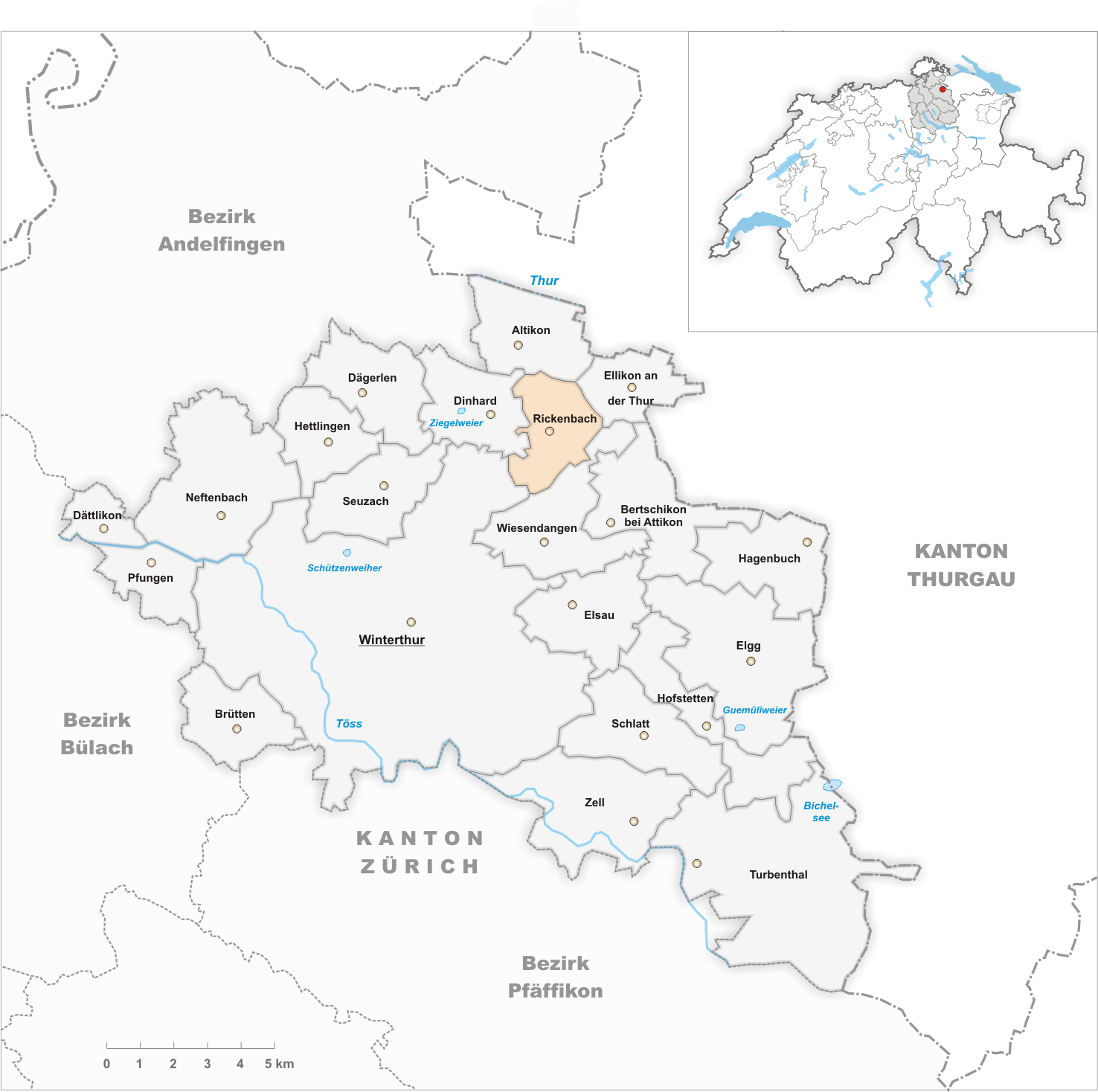 Municipality Rickenbach